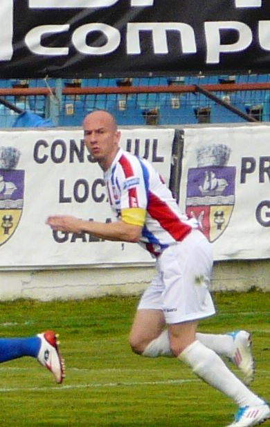 Sergiu Costin in April 2011, during Otelul - Gaz Metan